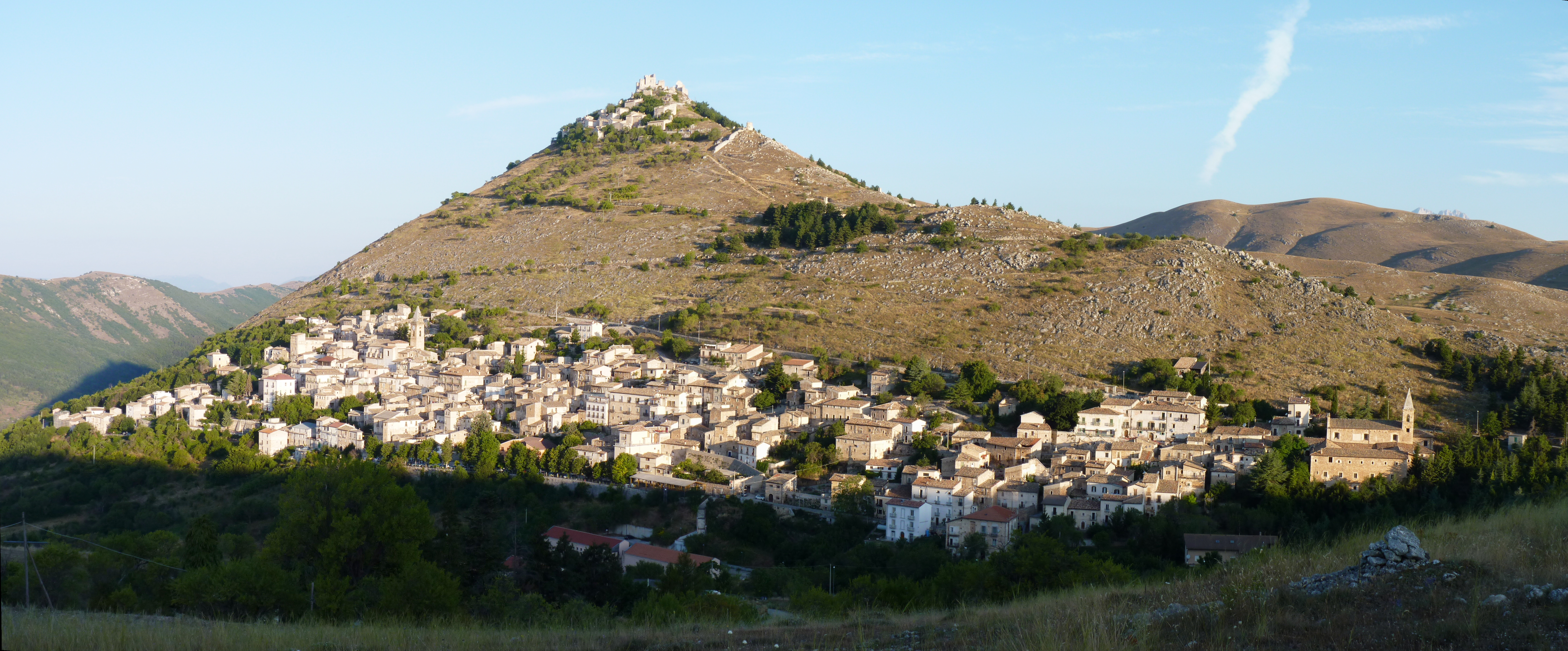 Calascio ans Rocca Calascio, Province of L'Aqulia, Italy, in sunrise